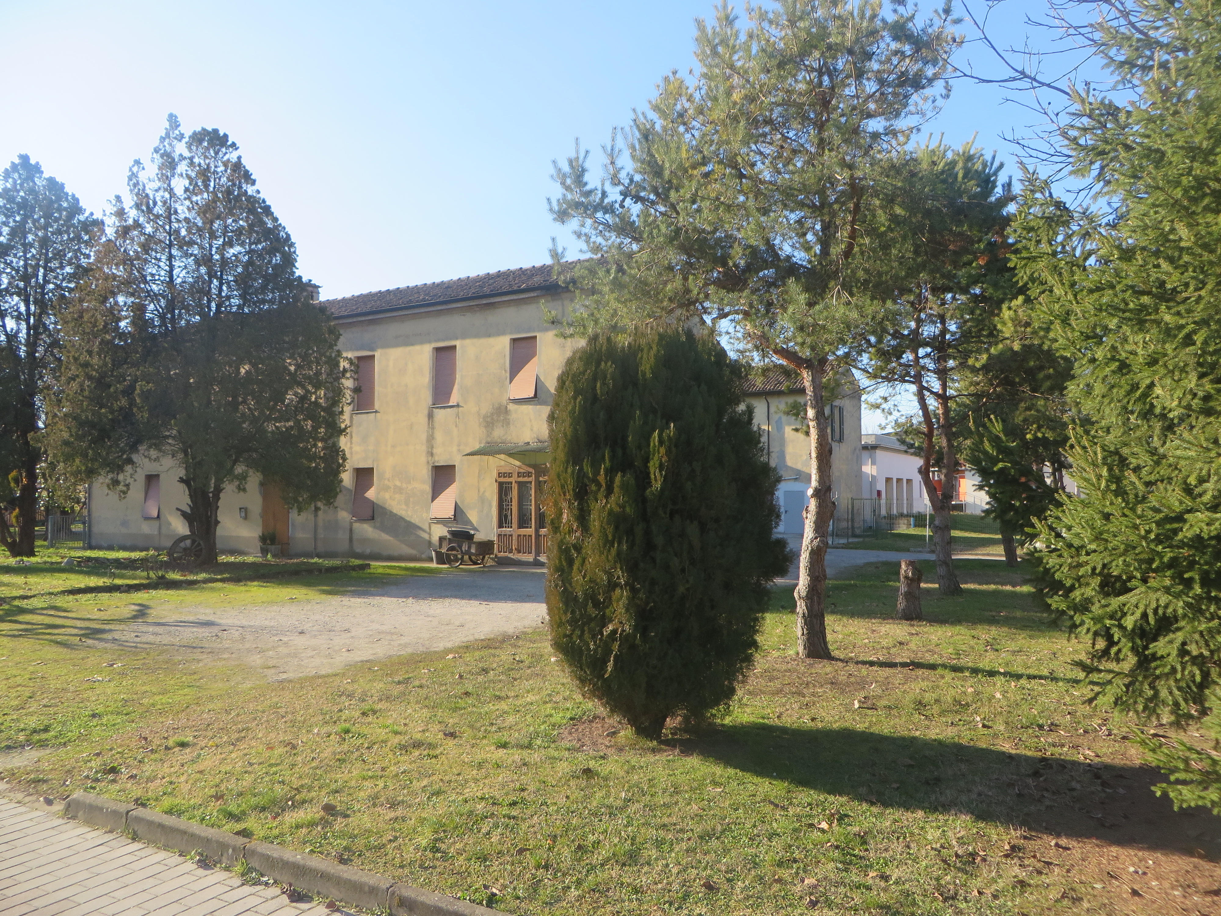 Old monastry